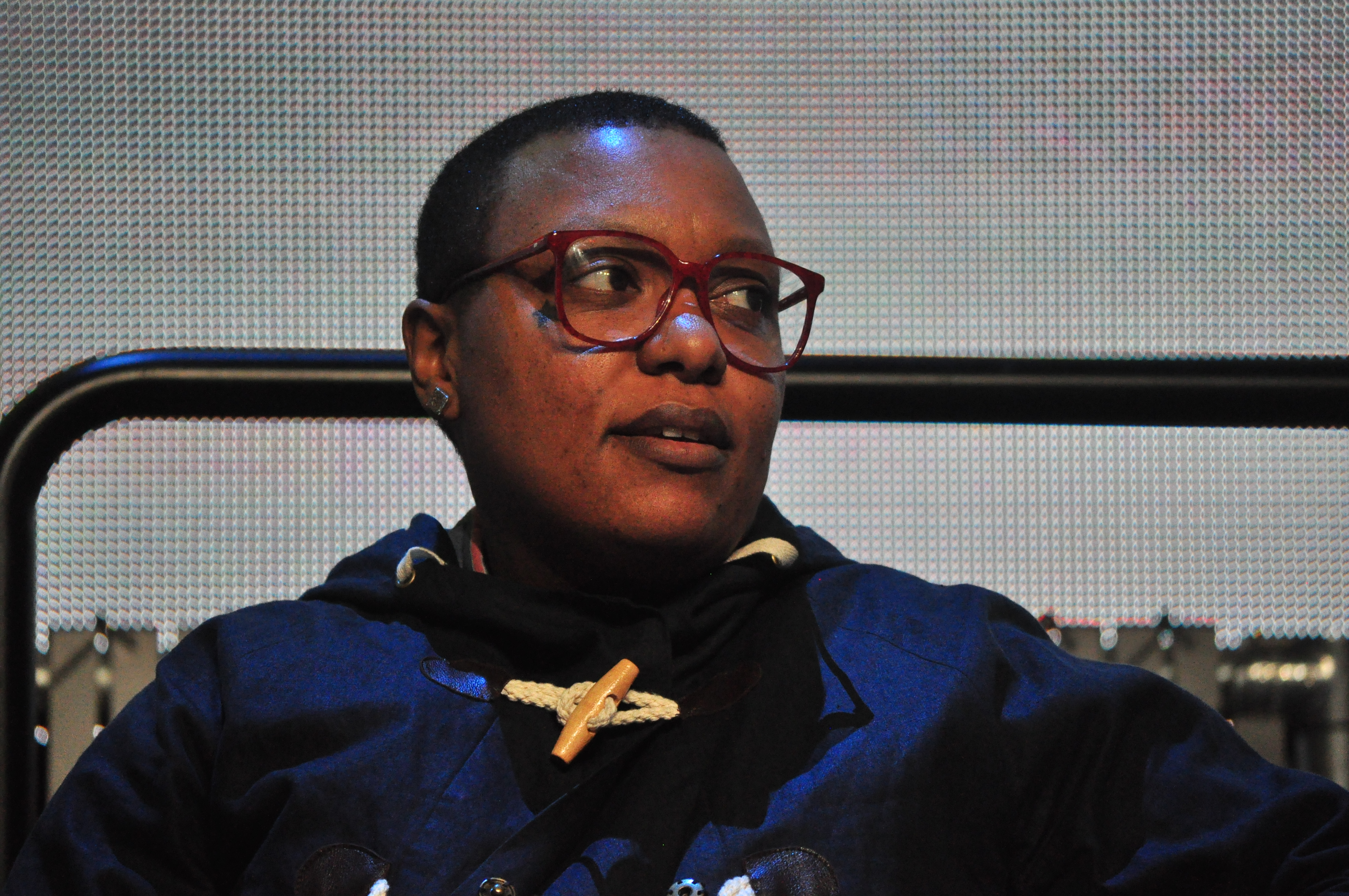 Meshell Ndegeocello, on the keynote panel of 2014 Pop Conference, EMP Museum, Seattle, Washington, U.S.